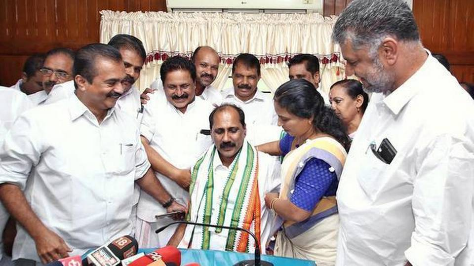 Elected panjayath president in kottayam, kerala